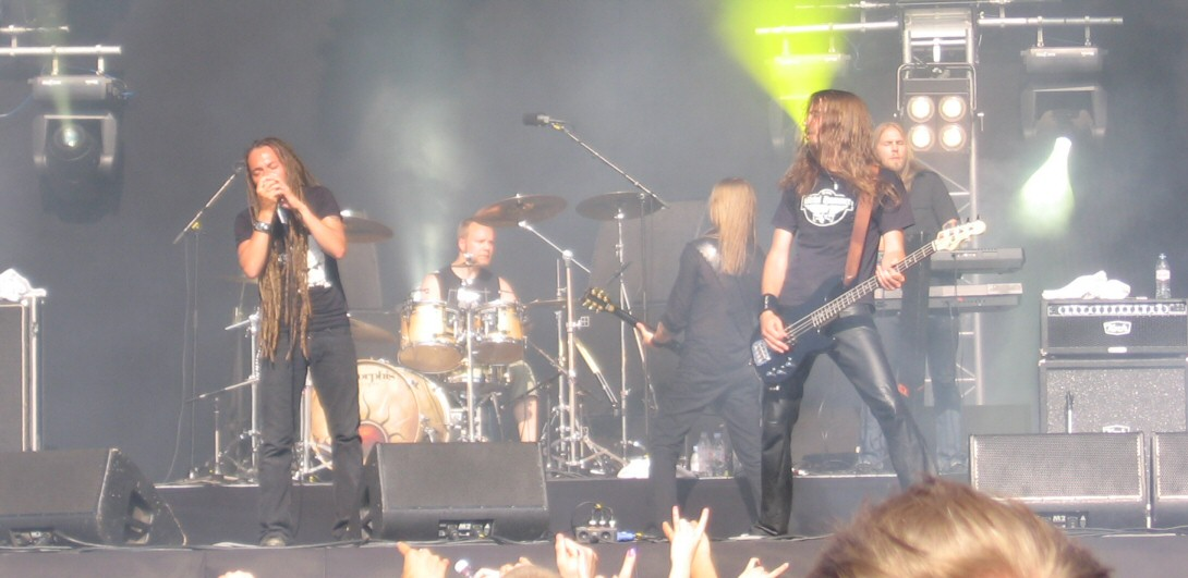 Finnish heavy metal group Amorphis performing at Tuska Open Air Metal Festival 2006.